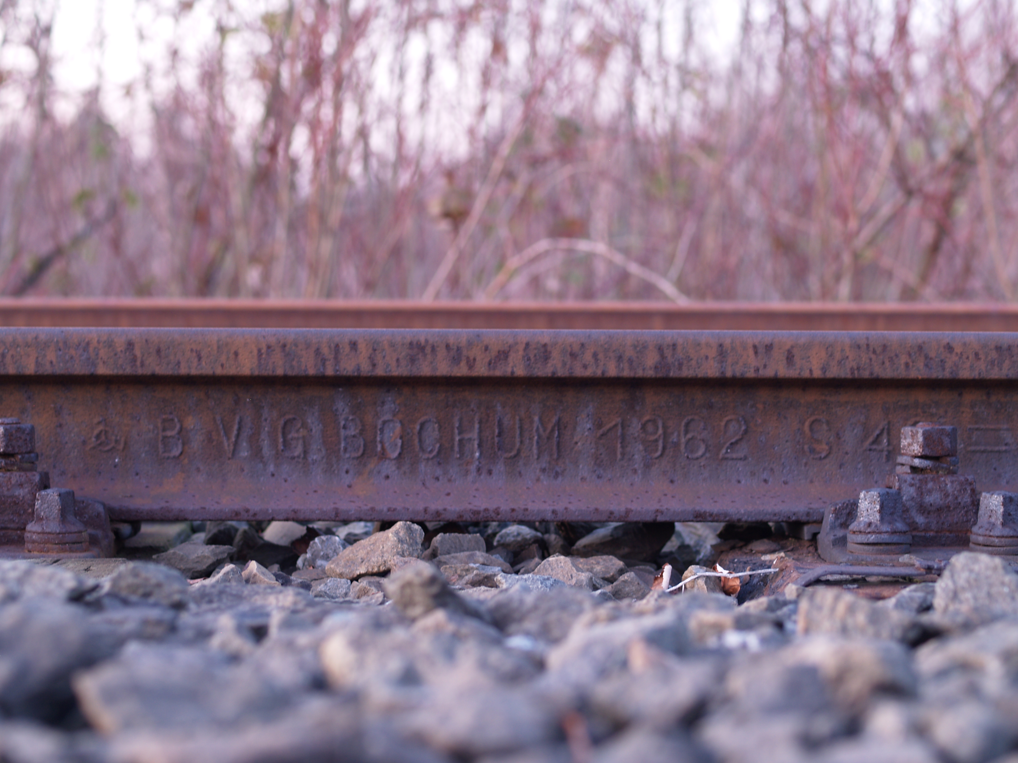 Rail, made by BVG (Bochumer Verein für Gussstahlfabrikation)Bochum in 1962